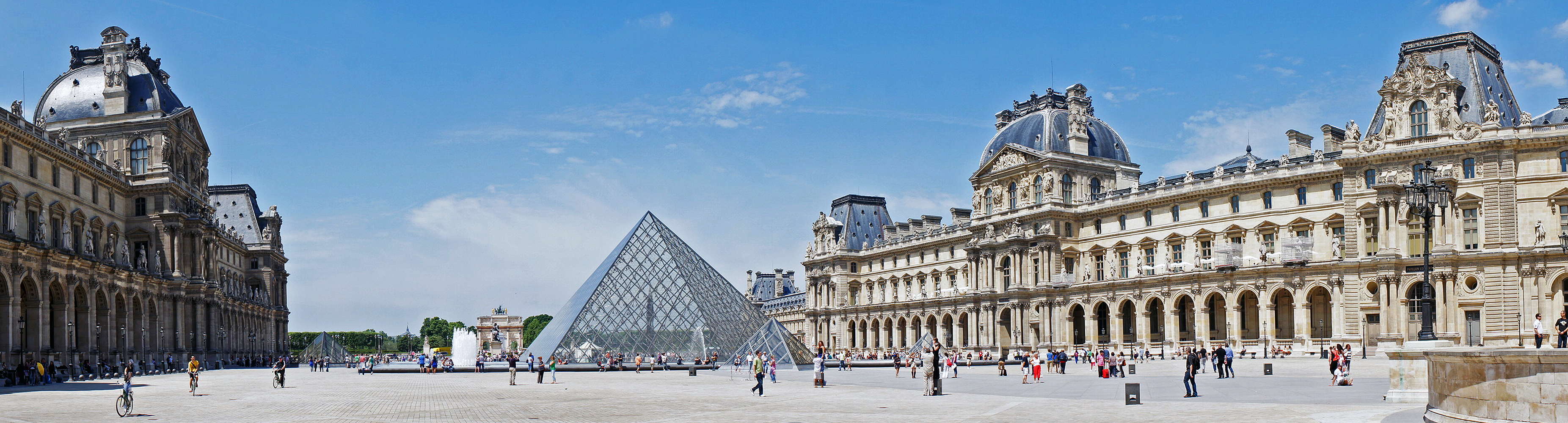 Cour Napoléon at the Palais du Louvre, where the Louvre Museum is located, Paris, France